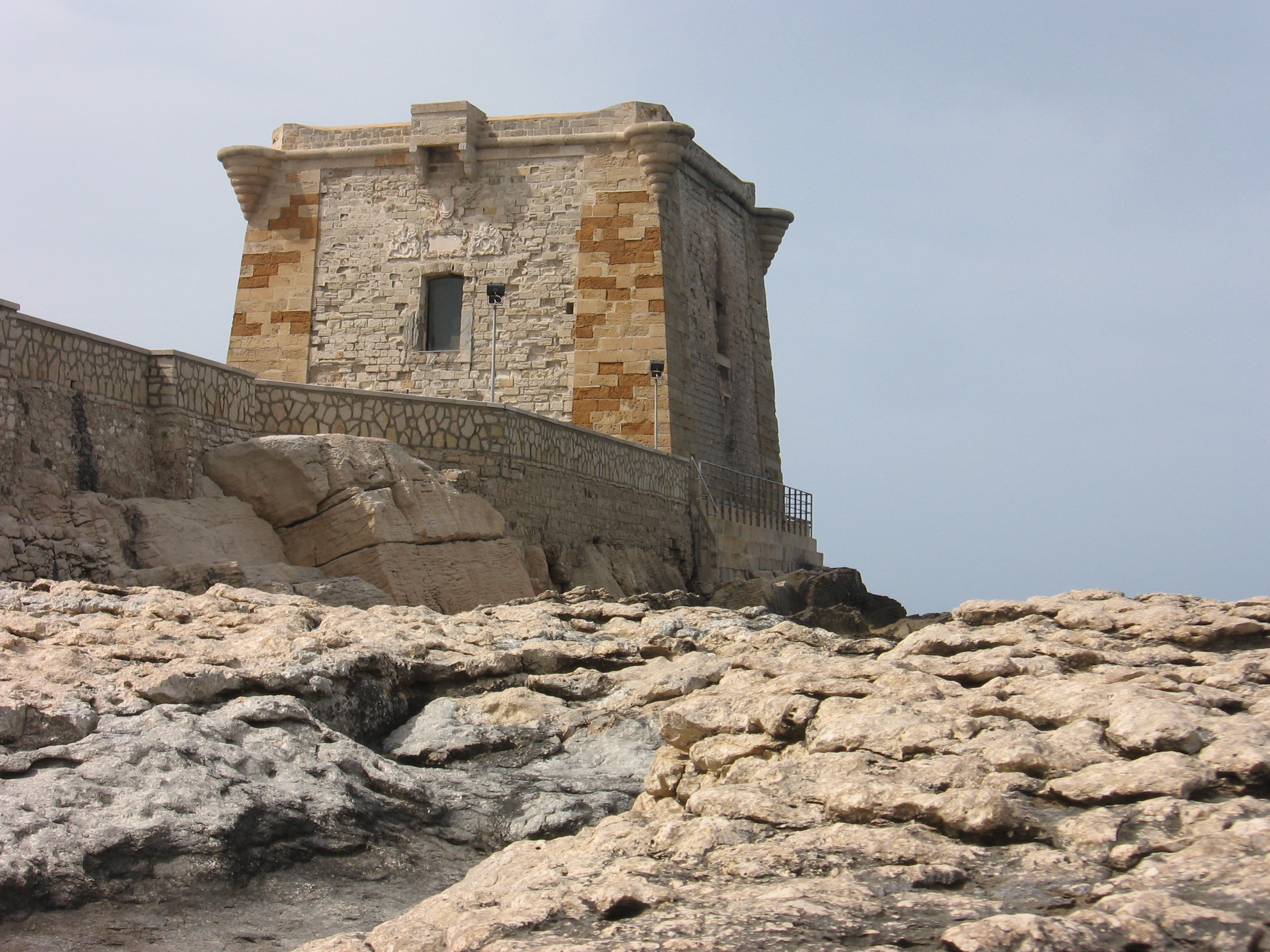 Torre di Ligny